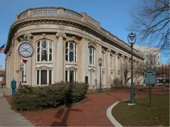 A photograph of the Milwaukee County Historical Society building, taken from the southeast, circa 2012.